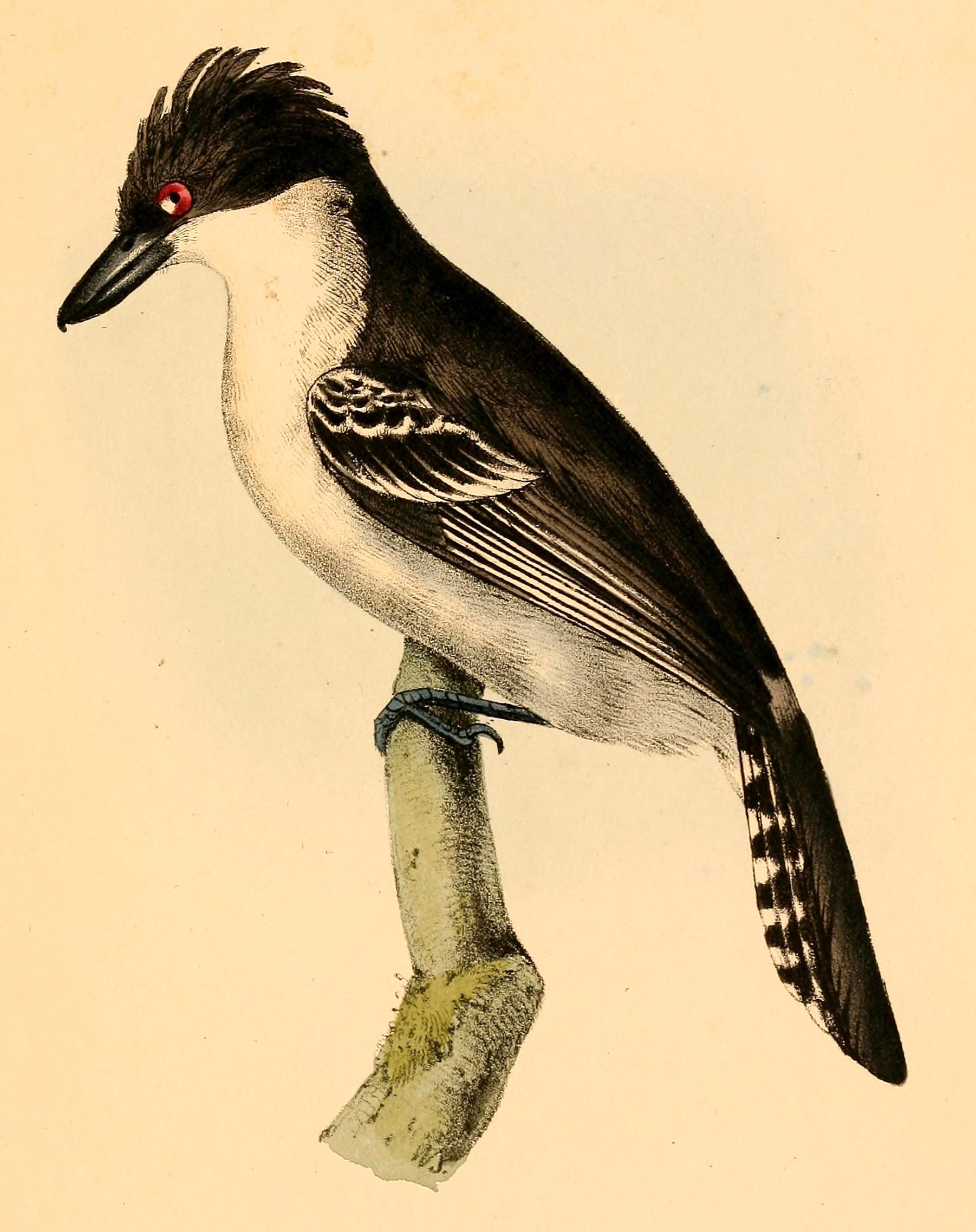 Thamnophilus bicolor = Taraba major stagurus (Subspecies of Great Antshrike)